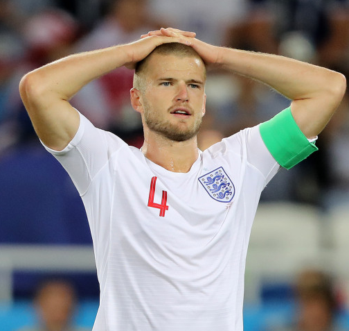 Eric Dier 2018 world cup